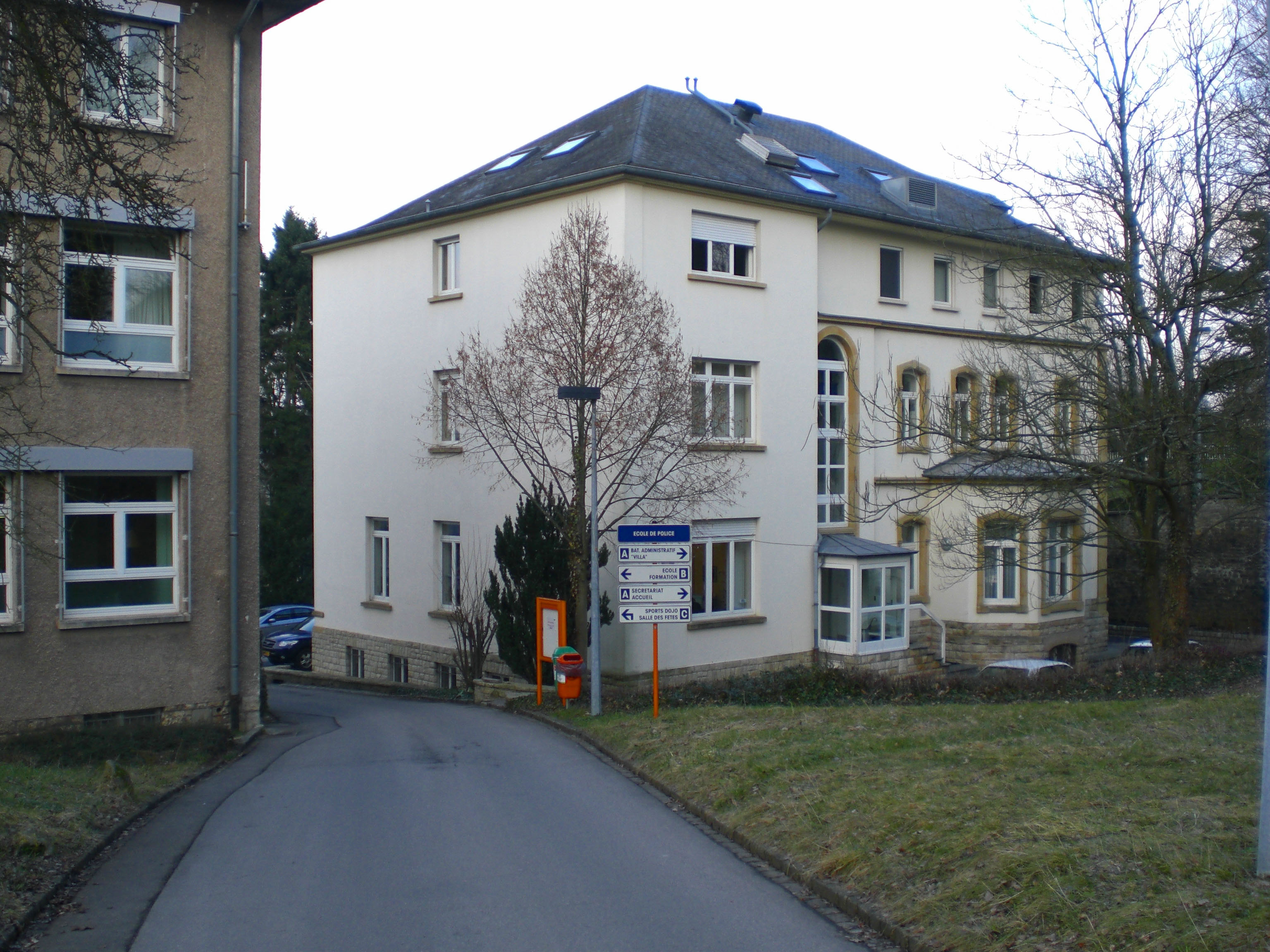 "Villa Hartmann"; administration building of the Luxembourg police academy in Luxembourg City